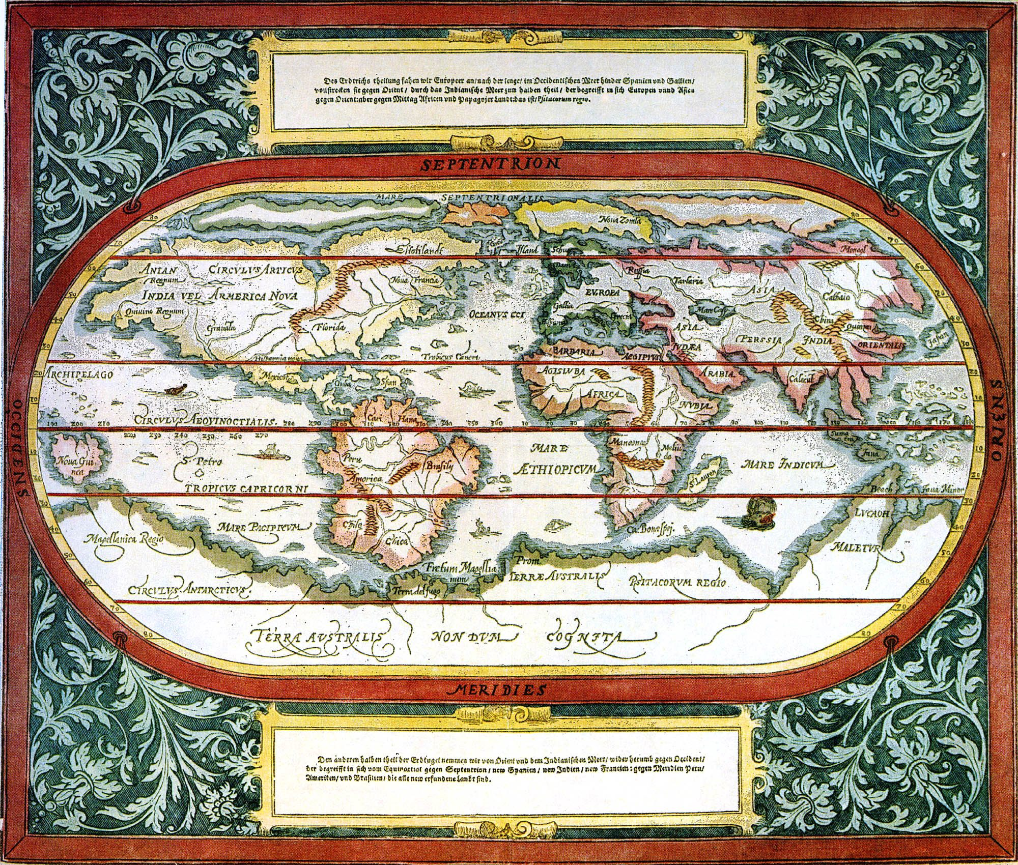 World map of 1544 by the German scientist Sebastian Muenster. Alaska and Canada have similarities with the Wytfliet atlas of 1597.